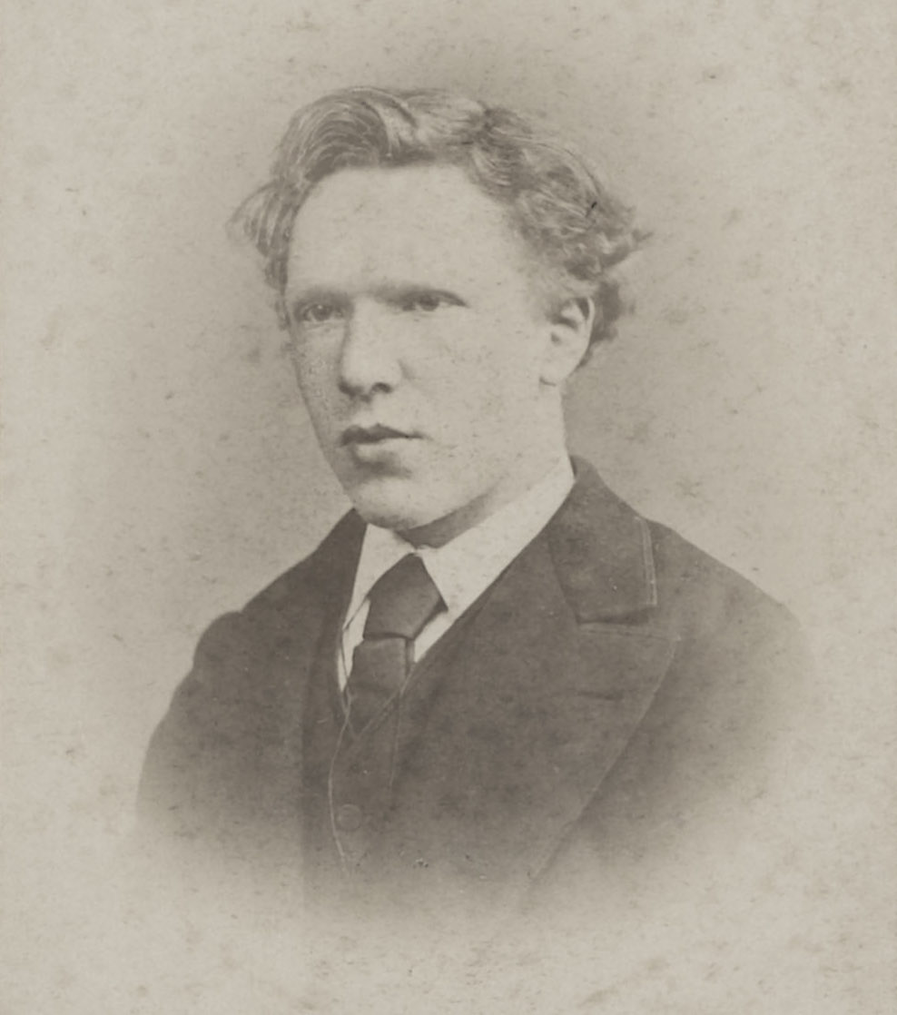 Vincent van Gogh at the age of 19